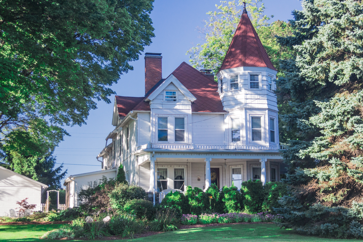 Harvey Judson Kingsley House